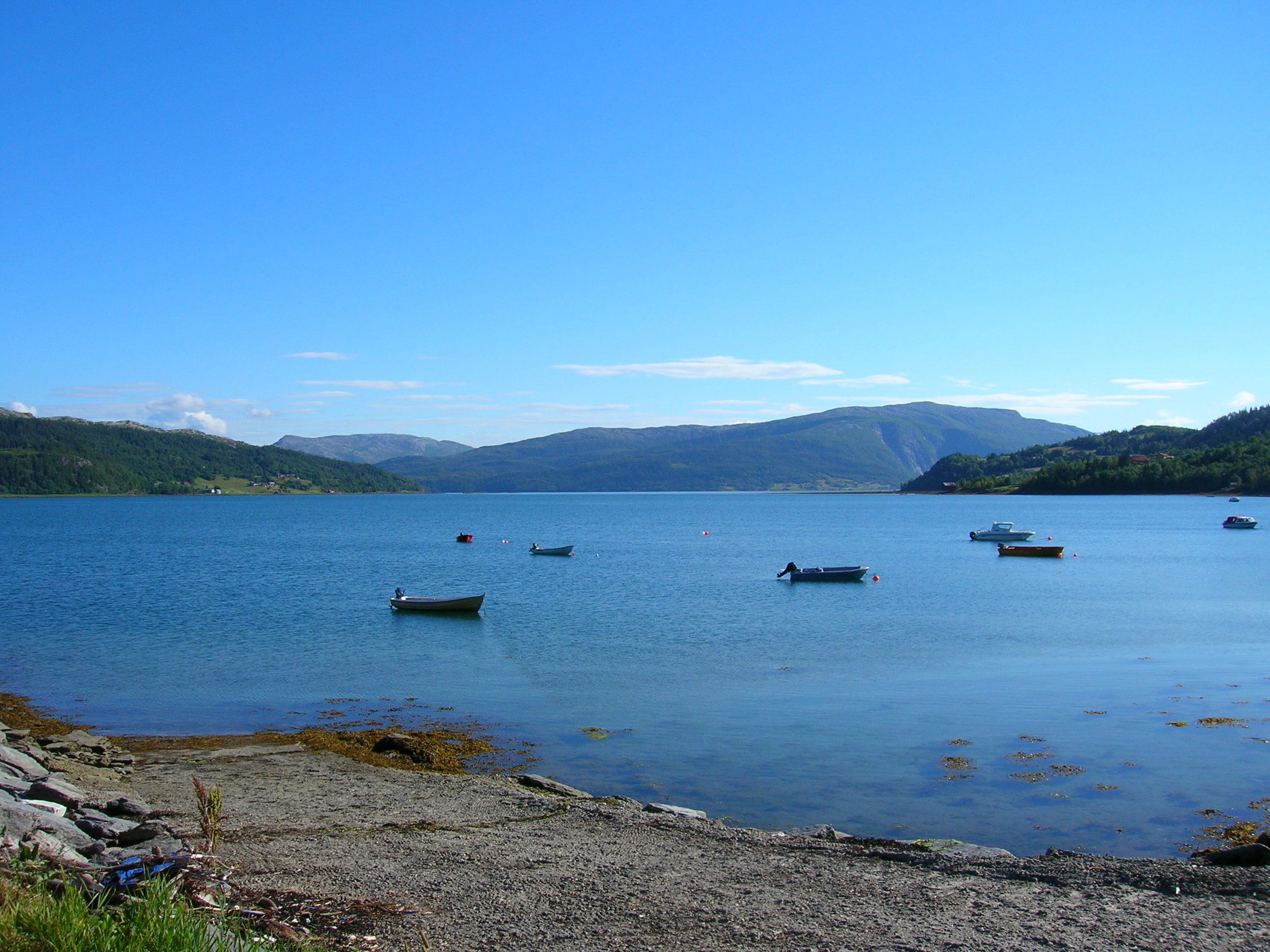 The fjord of Utskarpen in Rana municipality, Nordland, Norway, seen from the village area of Utskarpen, north of the fjord. Photo July 14, 2007 with a Nikon Coolpix 5600 5,1 Megapixel camera.